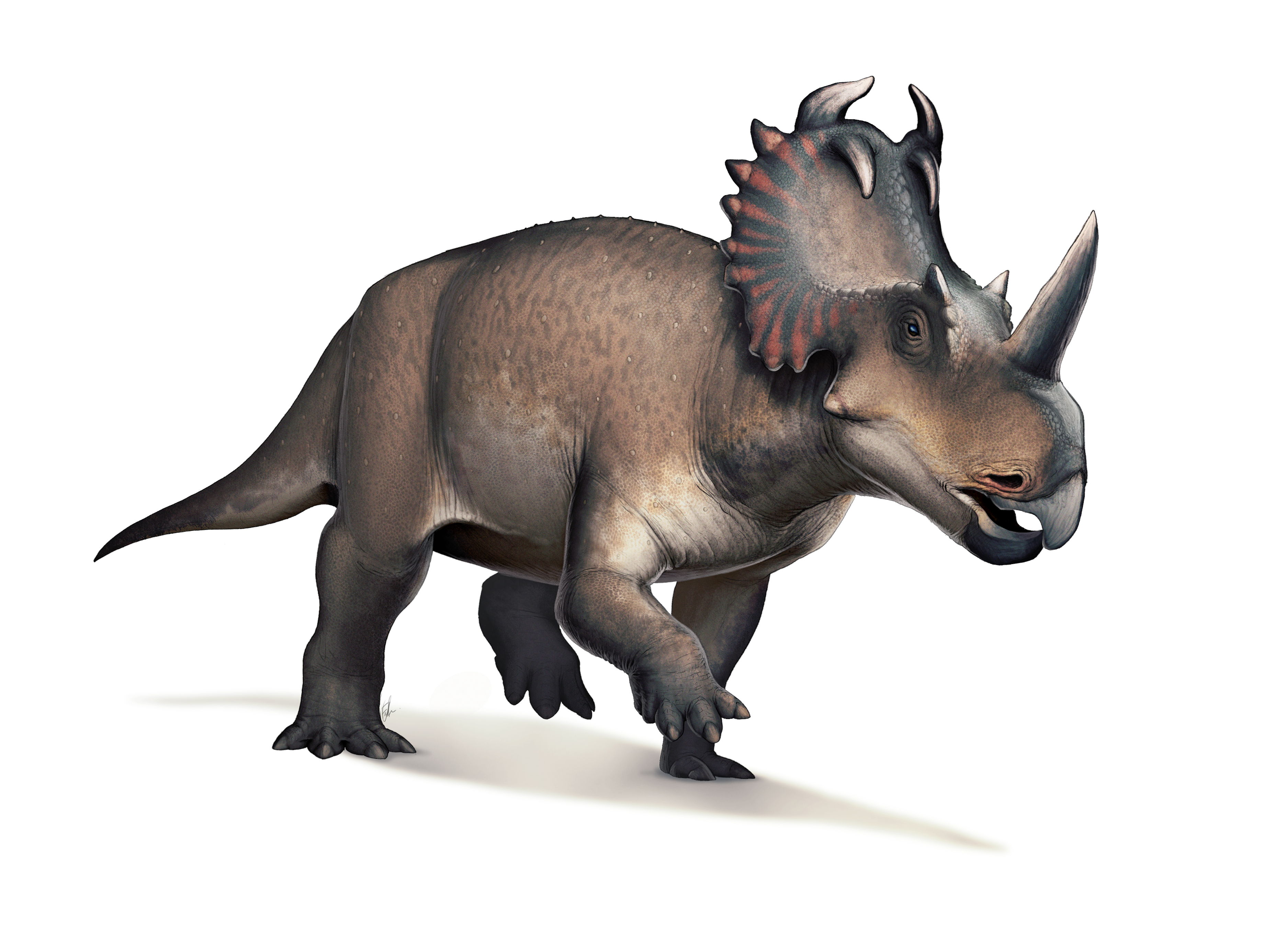 Centrosaurus reconstruction